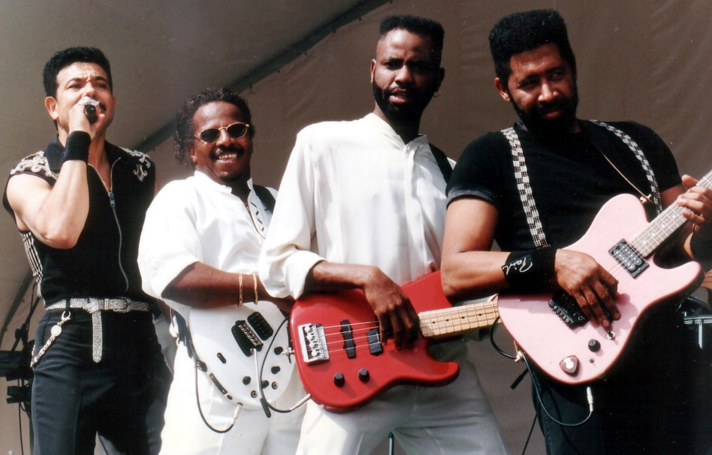 The Commodores performing at Gulfstream Park in Hallandale, FL. from left to right ,JD Nicholas, vocals, Mikael Manley lead guitarist,Tyron Stanton bass, William "WAK" King, songwriter,guitar, and trumpet